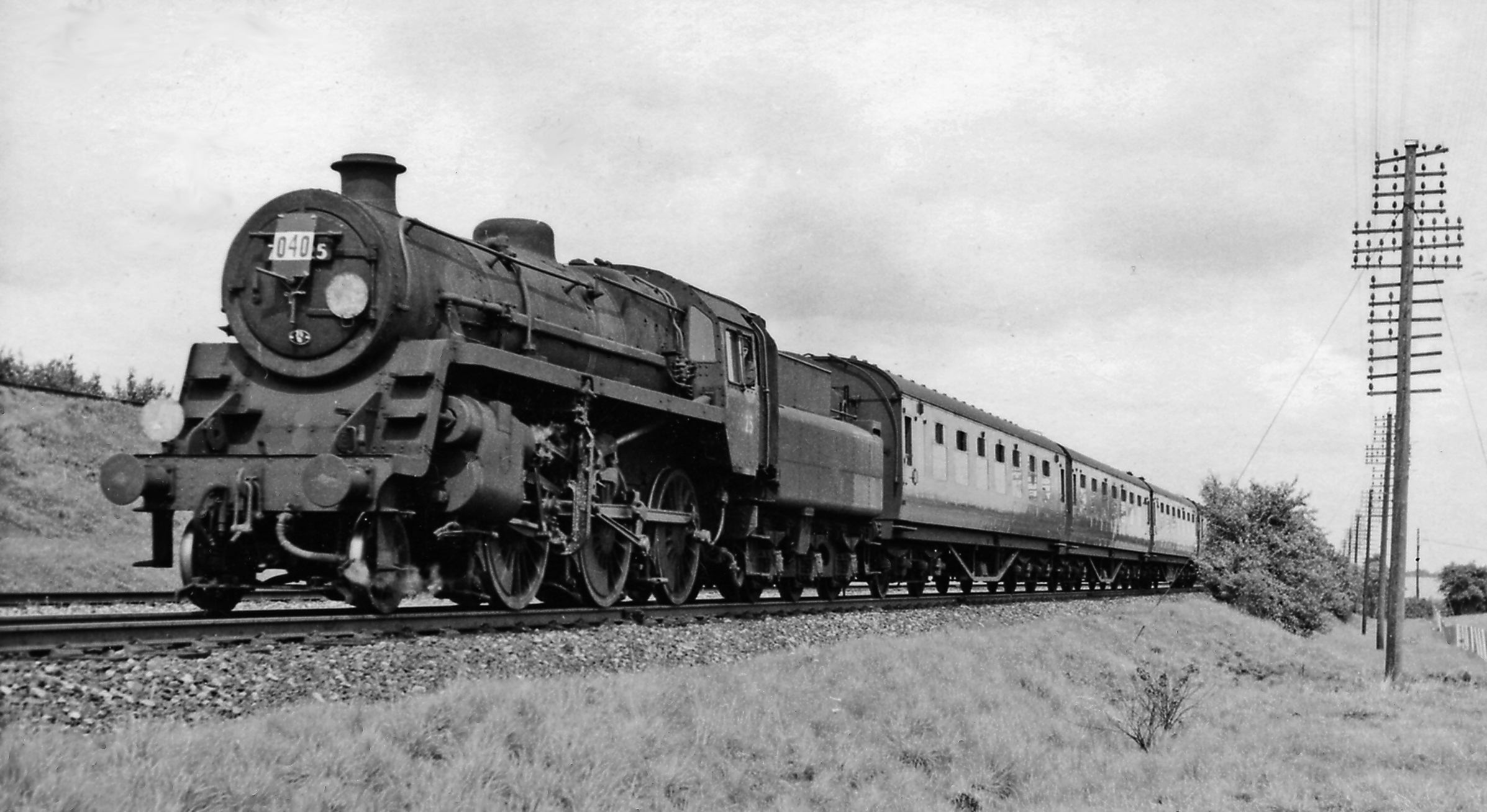 Sheffield - Bournemouth express at Worting Junction. View eastward, towards Basingstoke and London: ex-LSW Waterloo - Basingstoke - Southampton - Bournemouth main line, also to Salisbury, Exeter etc., which branches off here. The Up Bournemouth line is visible behind on the left, having crossed the Salisbury line on the Battledown flyover. The Summer Saturday 09.05 Sheffield Victoria - Bournemouth express has come via the ex-GC line, Banbury, Oxford and Reading West; BR Standard 4MT 2-6-0 No. 76025 (built 10/53, withdrawn 10/65) will have taken over at Basingstoke.